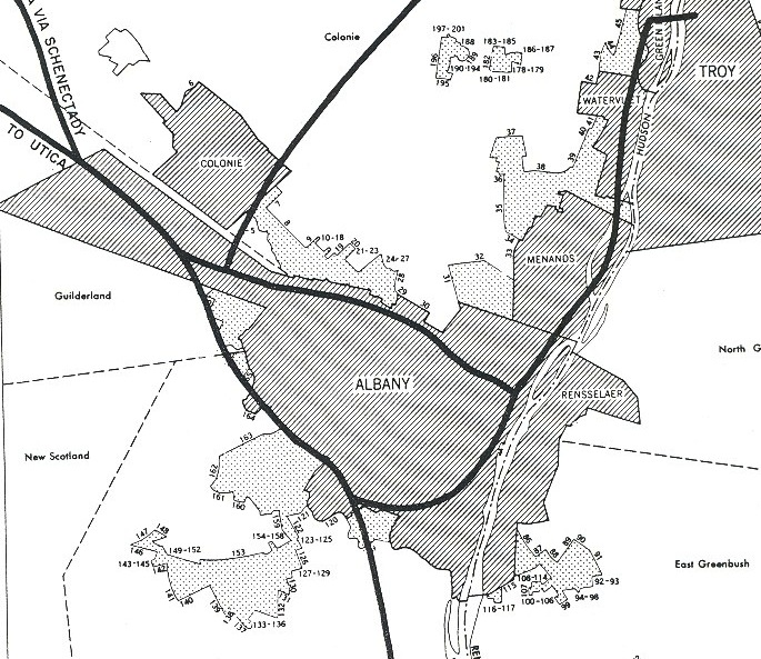 Map of Albany Interstate plans from 1955 This is a retouched picture, which means that it has been digitally altered from its original version. Modifications: Cropped. The original can be viewed here: Albany, New York 1955 Yellow Book.jpg: . Modifications made by UpstateNYer.